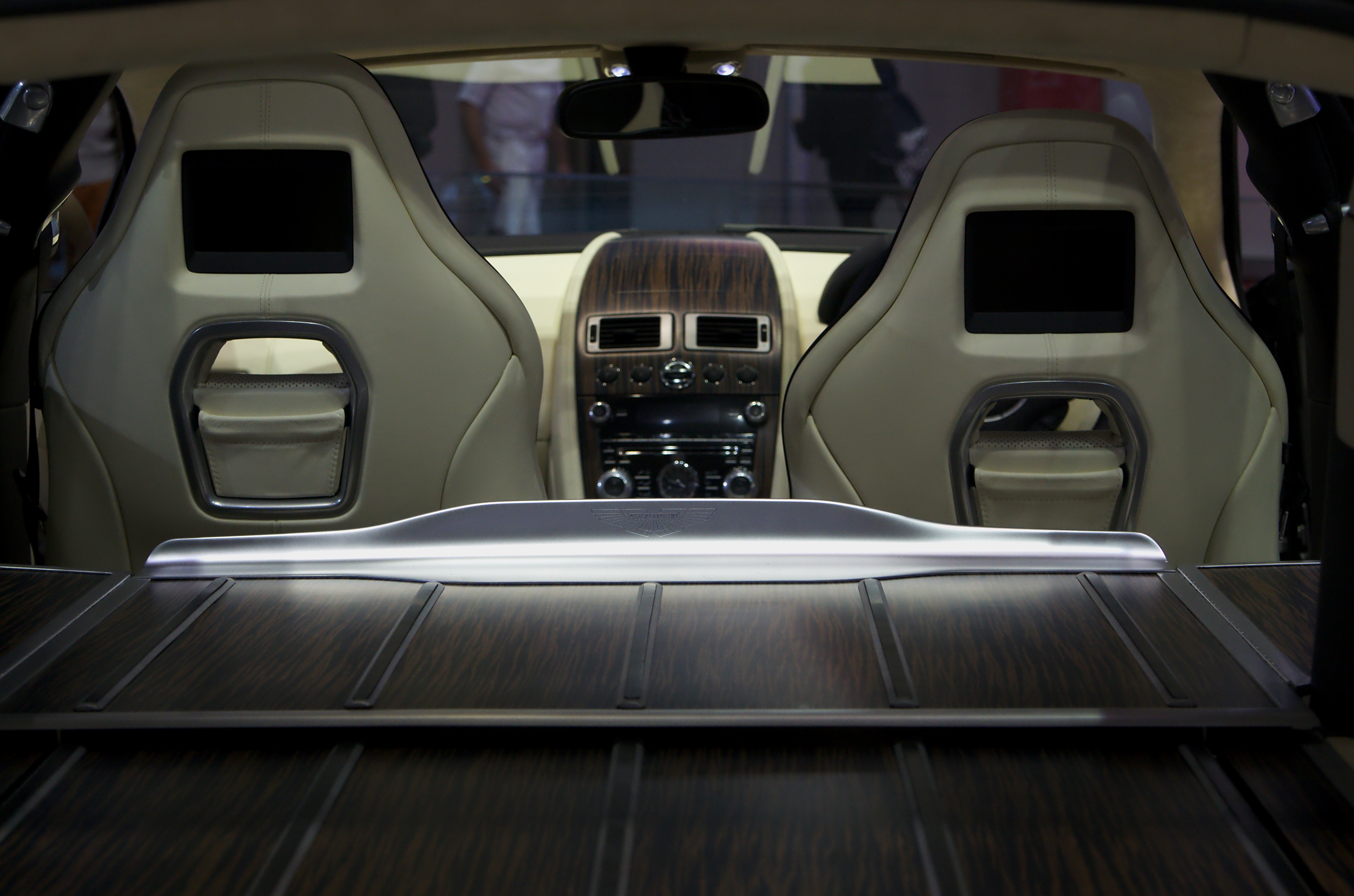 Geneva MotorShow 2013 - Aston Martin Rapide Bertone trunk 1